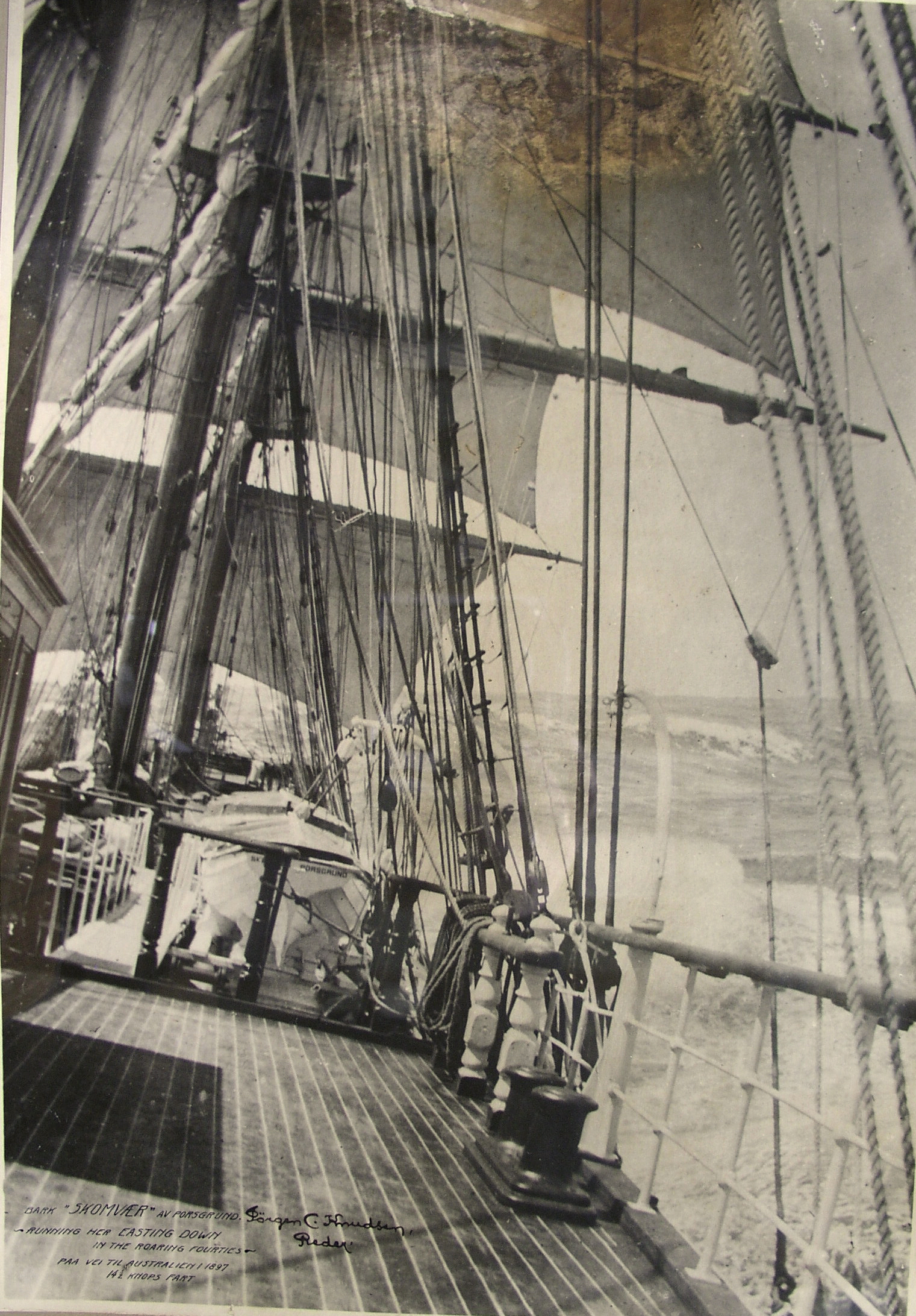 Steel-hulled barque "Skomvær" sailing to Australia in 1897 at 14.5 knots, seen from the deck.